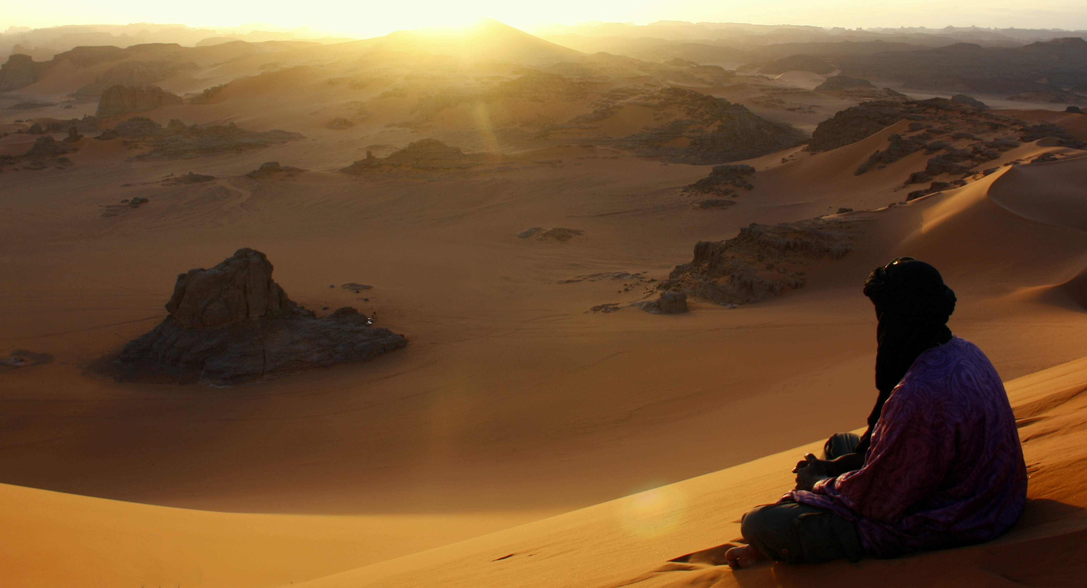 Tuareg on the dune of Timerzouga, place named Tadrart in the town of Djanet, wilaya of Ilizi 20km from the Algerian-Libyan border (Cultural Park of Tassili).